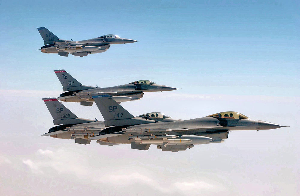 Spangdahlem Air Base F-16s fly observation formation off the wing of a KC-10. KC-10 Extenders from the 305th Air Mobility Wing (AMC) and 514th Air Mobility Wing (AFRC), McGuire AFB, N.J., are deployed to Burgas Airport and nearby Camp Sarafovo, Bulgaria, to support tanker operations. Members from various Air Force units world-wide are currently deployed with the 409th Air Expeditionary Group in support of Operation Iraqi Freedom.